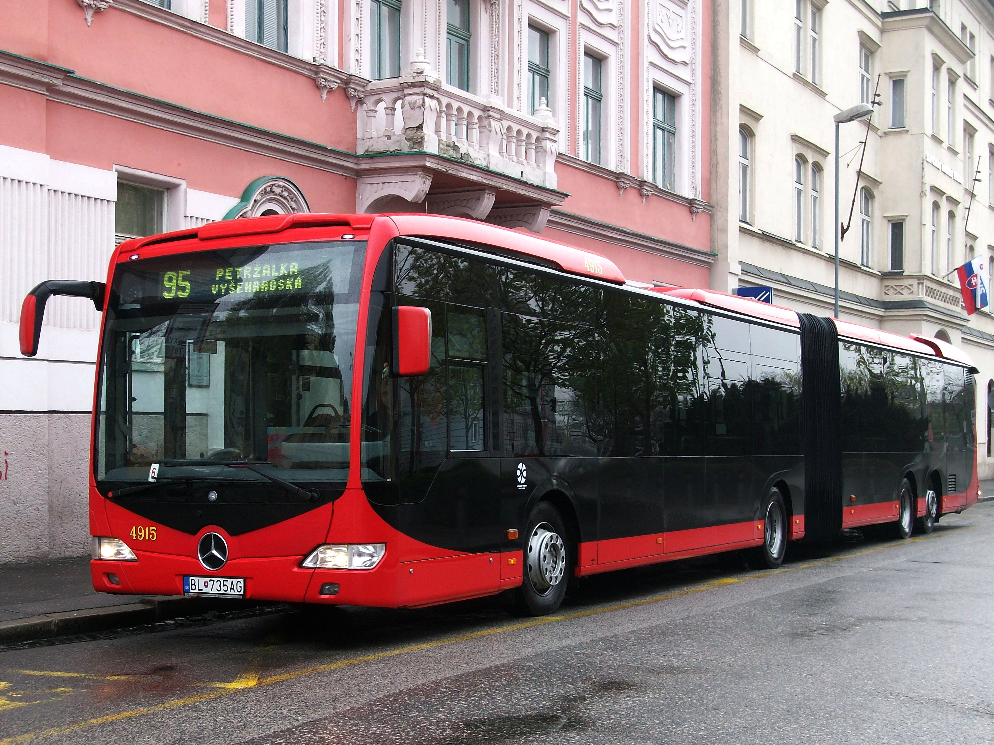 Mercedes-Benz CapaCity, Bratislava